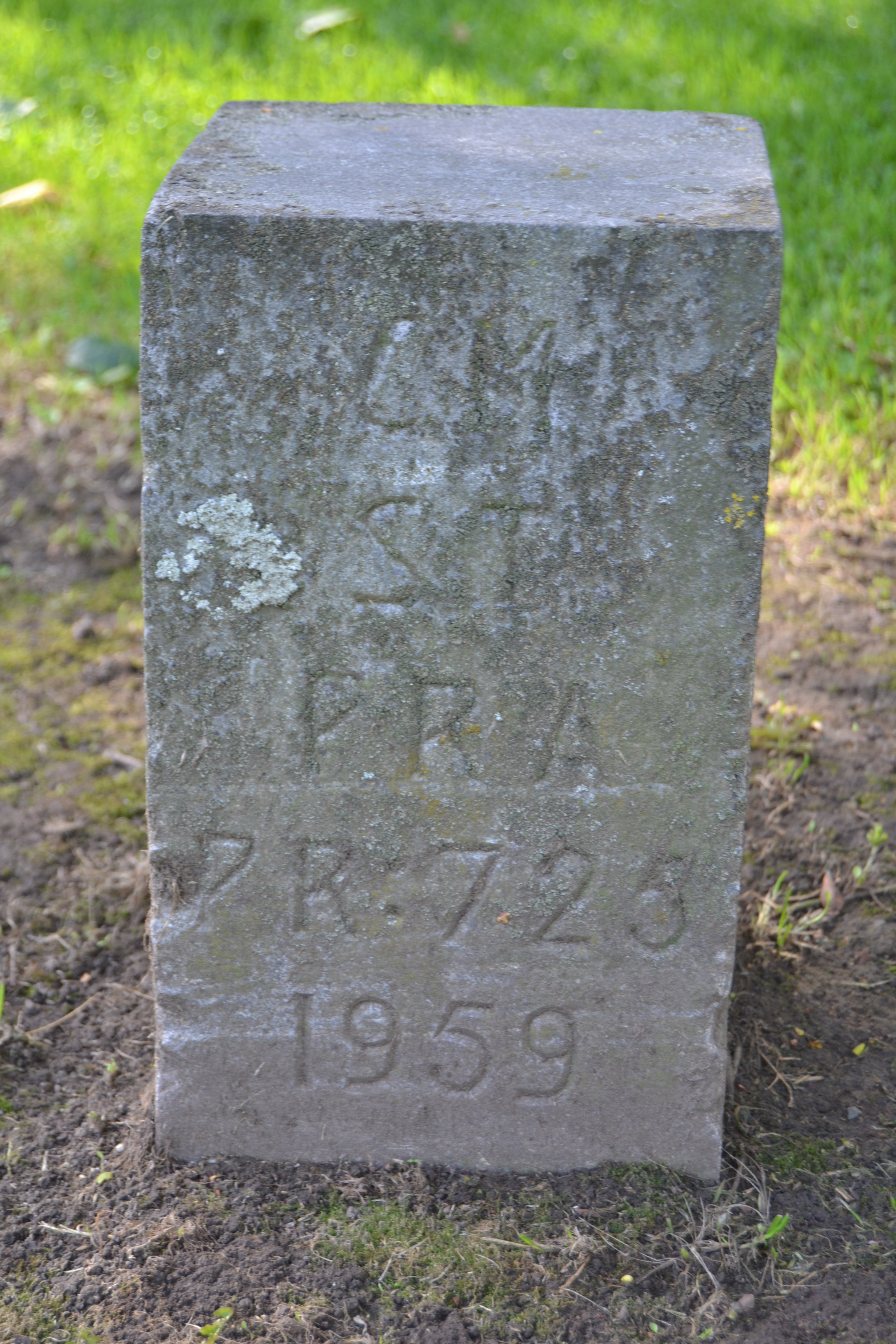 Ancient pit of the Bois de Micheroux coal mine in Soumagne, Belgium